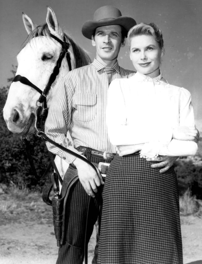 Photo of Peter Breck as Clay Culhane and Anna Lisa as Nora Travers from the television program Black Saddle.